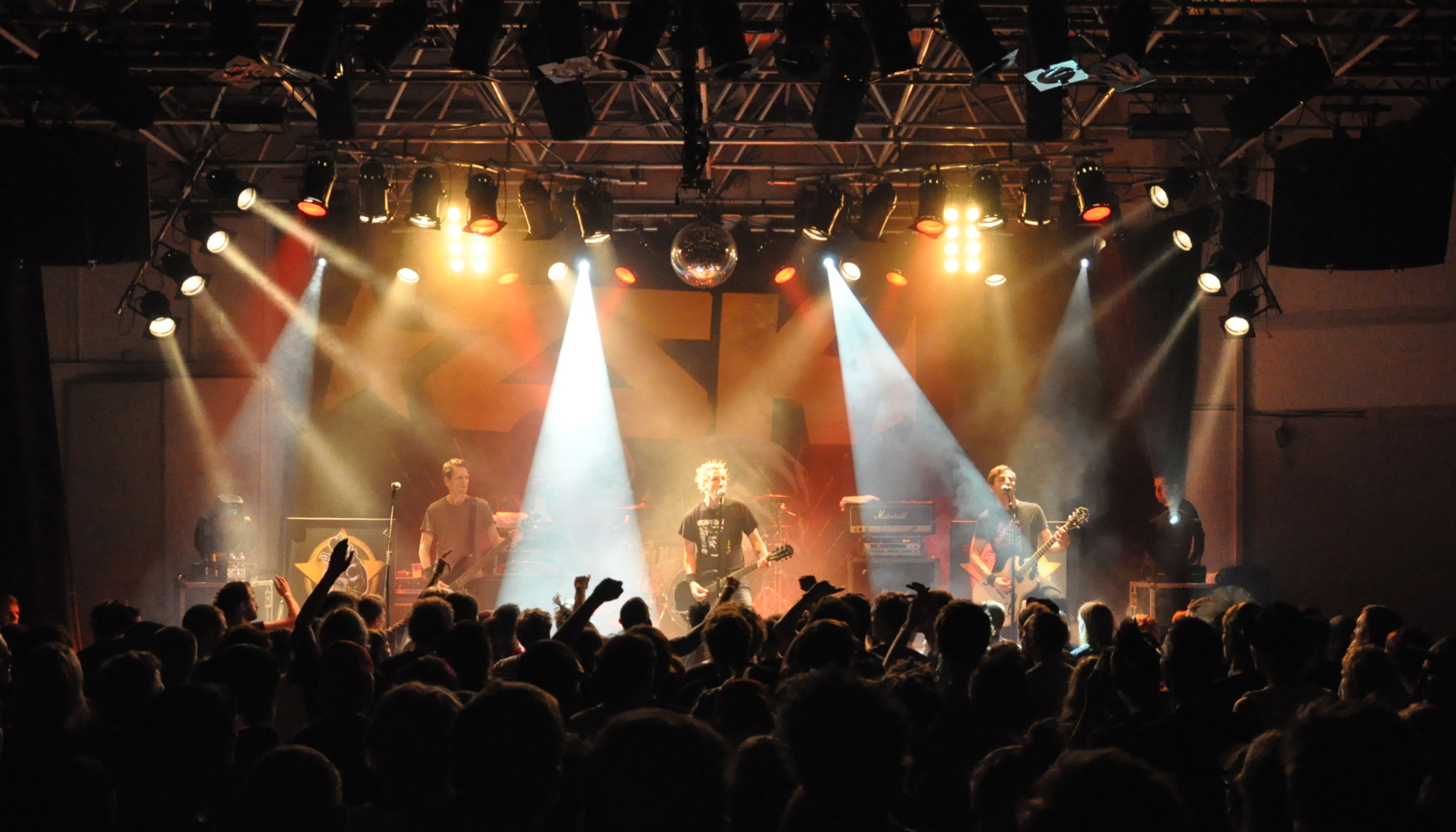 ZSK at Kein Bock auf Nazis Festival, Düsseldorf 2013